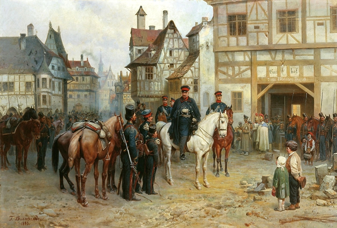 Gebhard Leberecht BLUCHER (1742-1819) - Prussian military commander, Field Marshal (1813), Prince von Wahlstatt. In 1813-1814 Commander of Russian-Prussian Army of Silesia in the war with France, in 1815 – Commander of Prussian Army, which participated in the Battle of Waterloo.